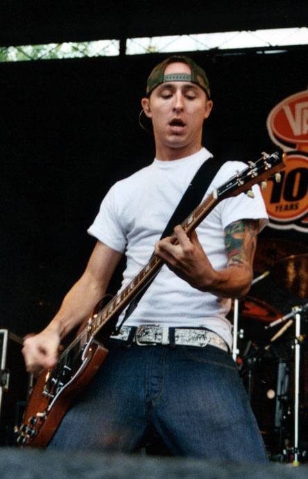 Ryan Key.